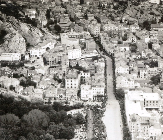 Aerial view of Plovdiv main commercial street, 1940